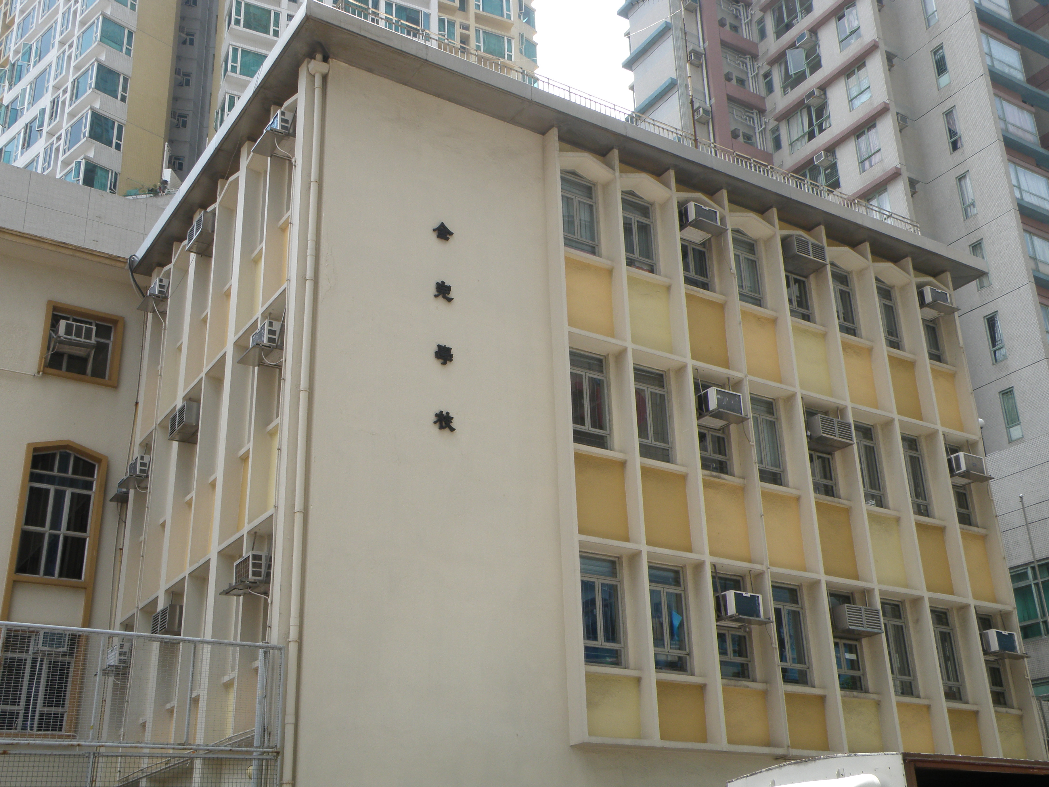 CCC Chuen Yuen First School in Tsuen Wan, Hong Kong.